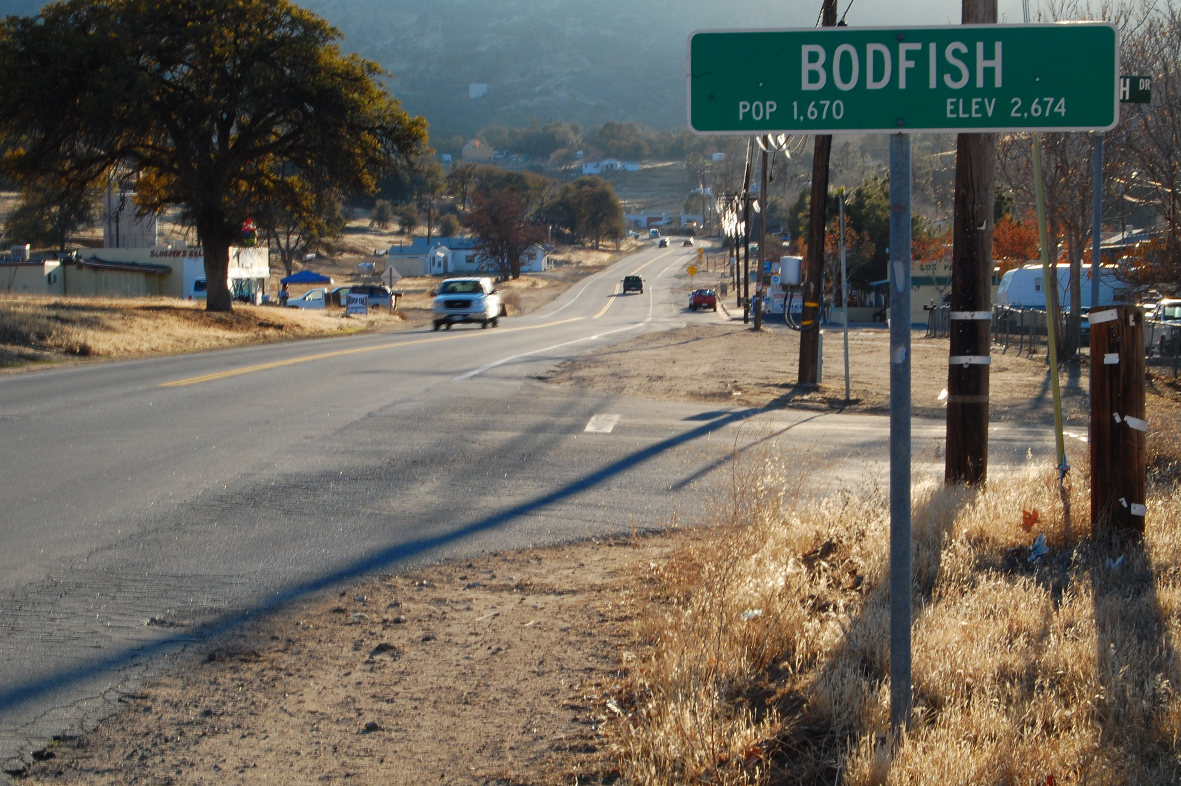 Bodfish, California county guide sign Documents the existence of Bodfish, California. About this image: Was captured using film or digital camera equipment. May lack artistic merit but documents the existence of the subject(s). May have had elements including colors, composition, gamma, exposure, or size adjusted using camera-, lens-, scanner-settings or by applying image editing software. May have had aberrations, flare, or reflections removed in order that the subject of the image is more clearly visible. Is intended to be representative of the view of the subject that would be perceived by a human eye.